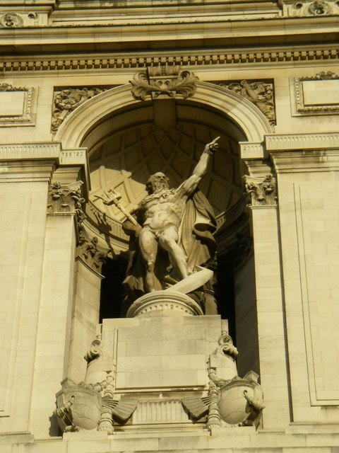 Statue of Father Thames, part of the architectural scupture of 10 Trinity Square (the former Port of London Authority building) in the City of London. Begun by Albert Hodge and completed by Charles Doman (1921–2).